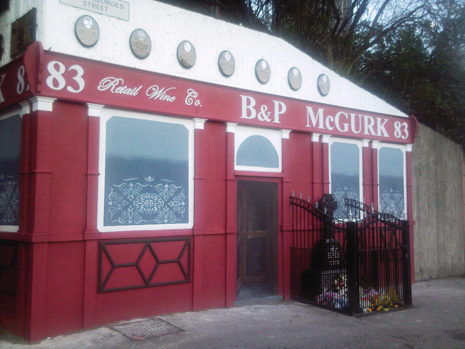 A mocked up bar front on the spot where the actual McGurk's bar was destroyed by a bomb in 1971, corner of Great George's Street and North Queen Street, Belfast